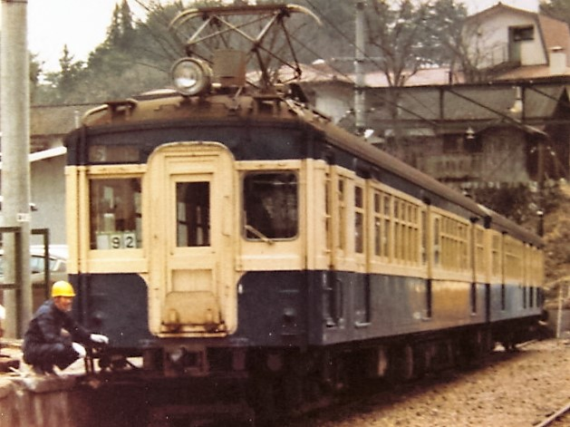 JNR 51 series EMU car KuMoHa 51200